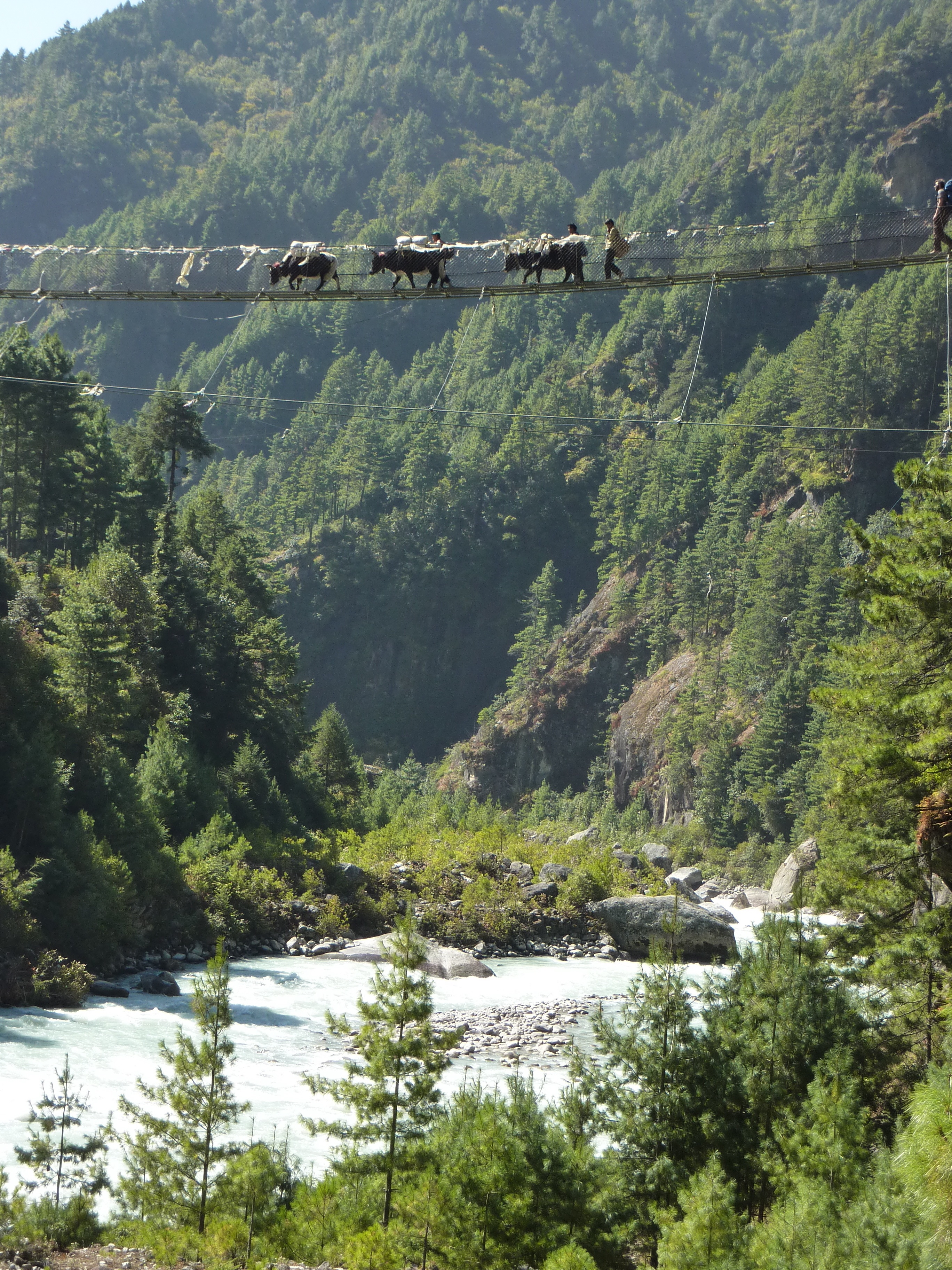 Everyone else stays off until they pass.